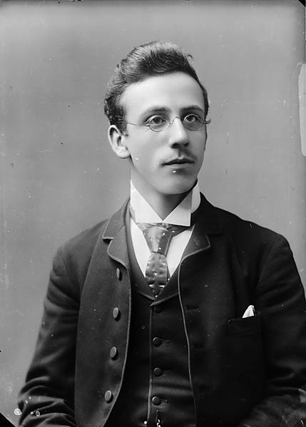 1 negative : glass, dry plate, b&w ; 16.5 x 12 cm.